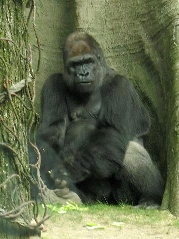 Western Gorilla at Bronx Zoo.